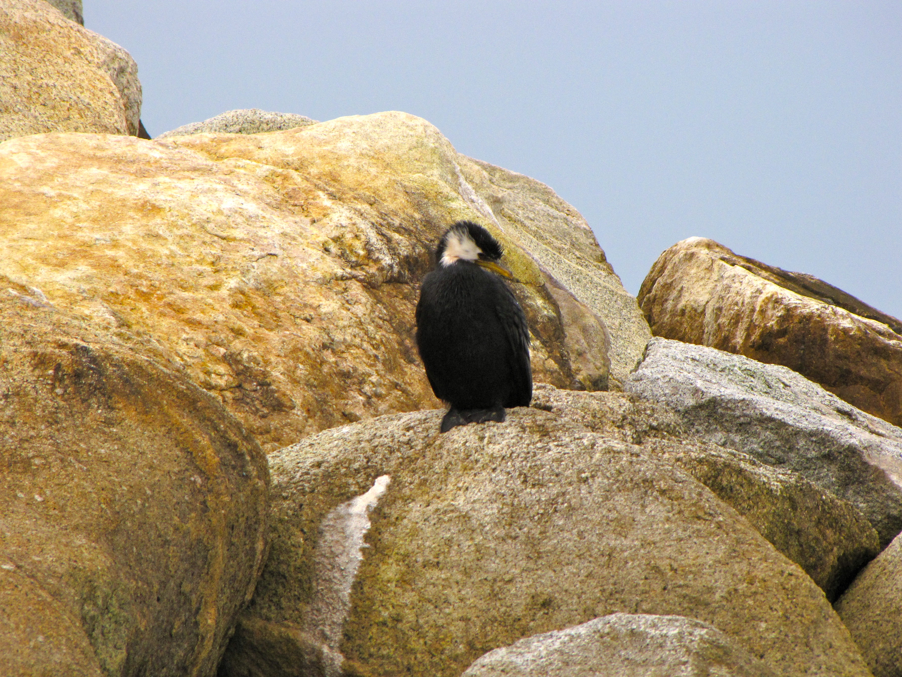 Black-breasted form of the Little Pied Cormorant in Marahau, New Zealand